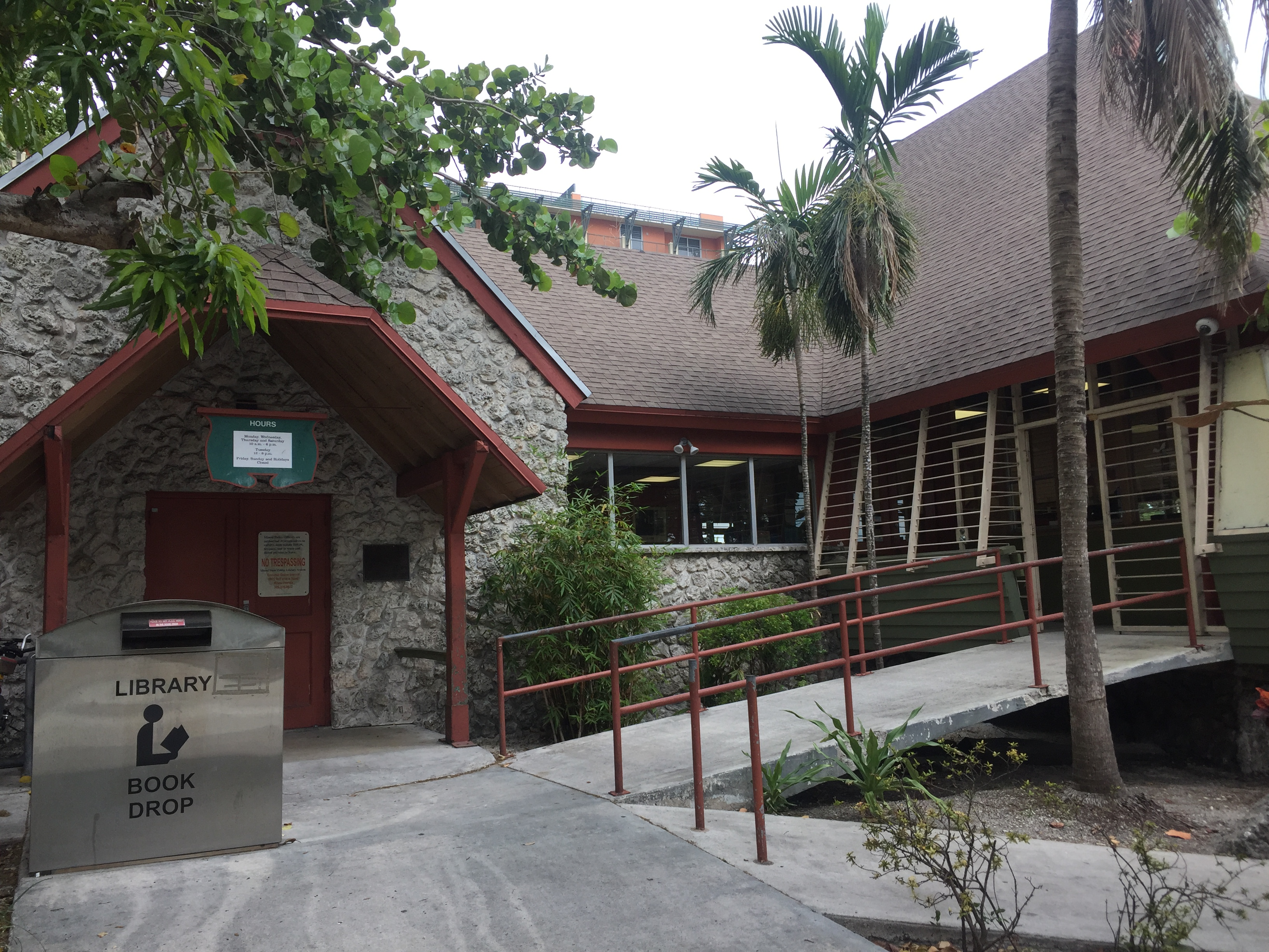 Exterior view of the Coconut Grove Library